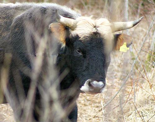 The head of a aurochs (Bos primigenius) photographed at Lille Vildmose, Denmark. Removed "2004 Malene Thyssen, Denmark" with user's e-mail adress by cropping image.